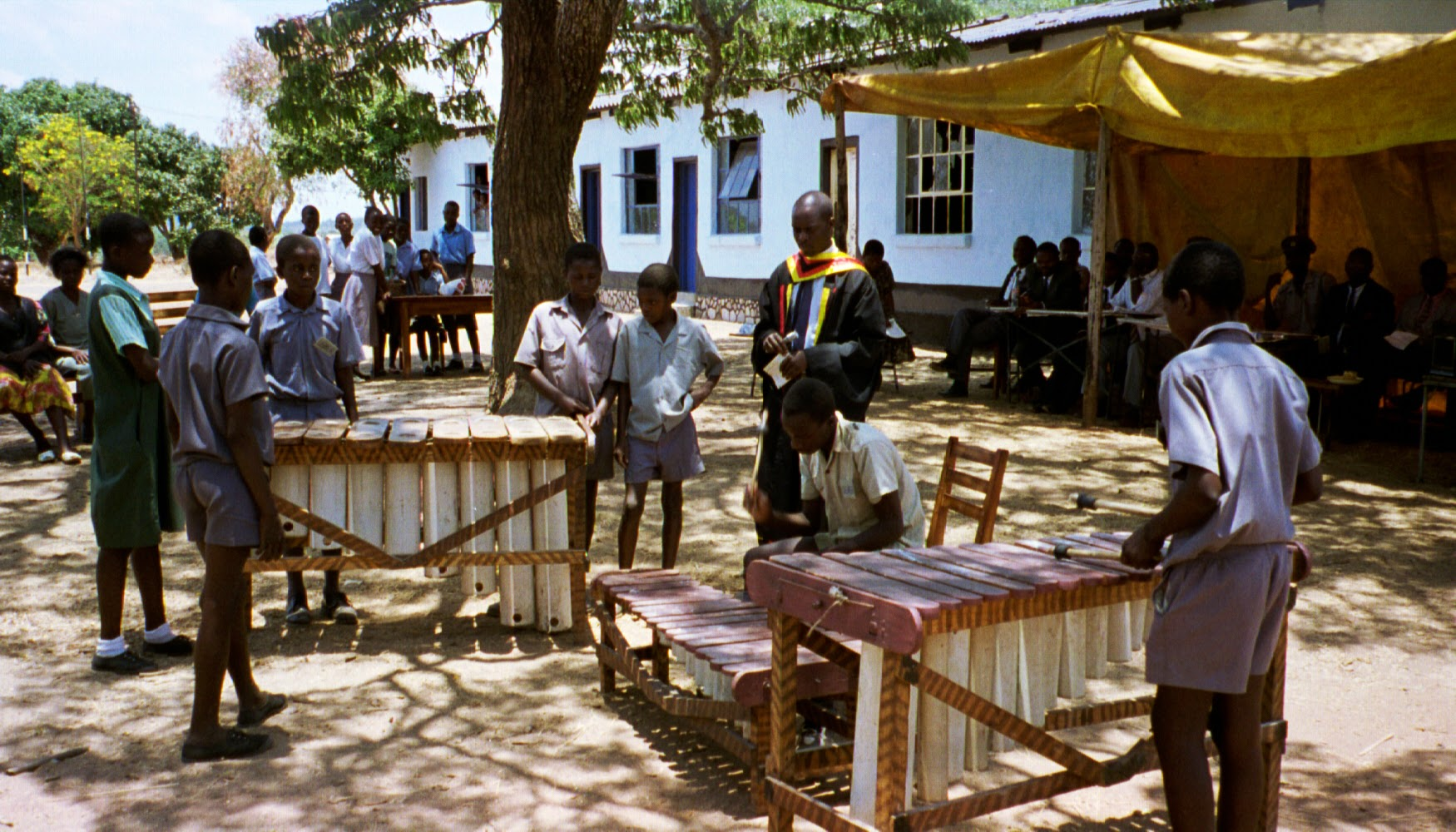 Pupils at Vuti Primary School playing Marimba on the school grounds in Zimbabwe's Mashonaland West Province